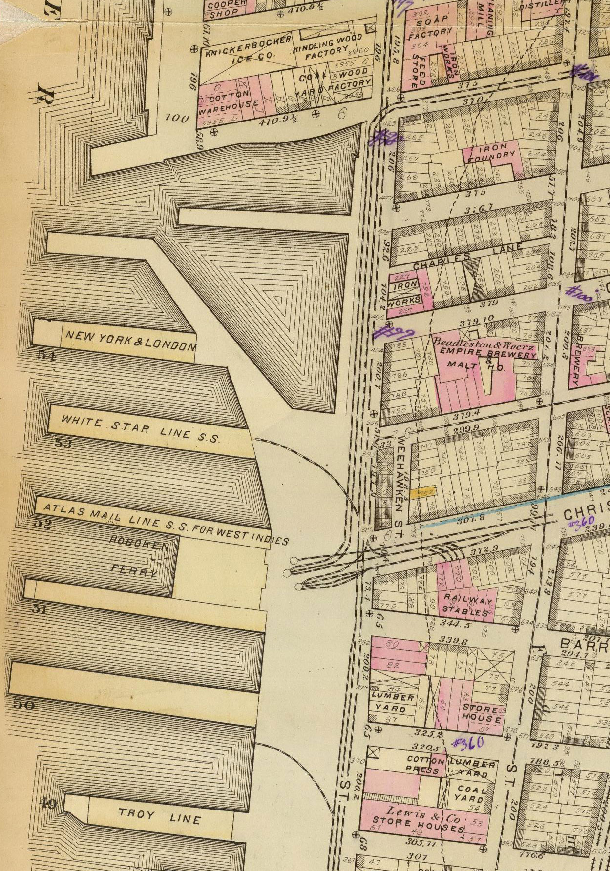 This is a portion of a scan from the David Rumsey Map Collection of an 1879 Bromley atlas of New York City, showing the area around the Christopher Street Ferry. FOR KEY TO MAP SYMBOLS, CLICK HERE.